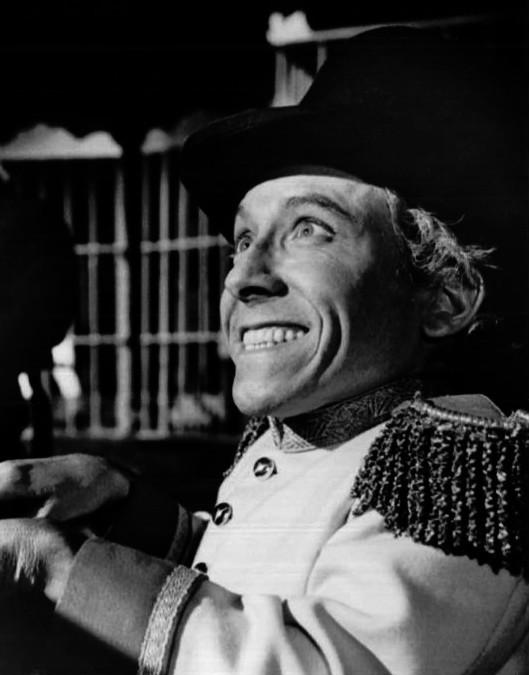 Photo of Michael Dunn as Dr. Loveless from the television program The Wild Wild West. Dunn's character was a recurring villain in the series. This episode, "The Night of Miguelito's Revenge", marks the last appearance of the Dr. Loveless character on the program.